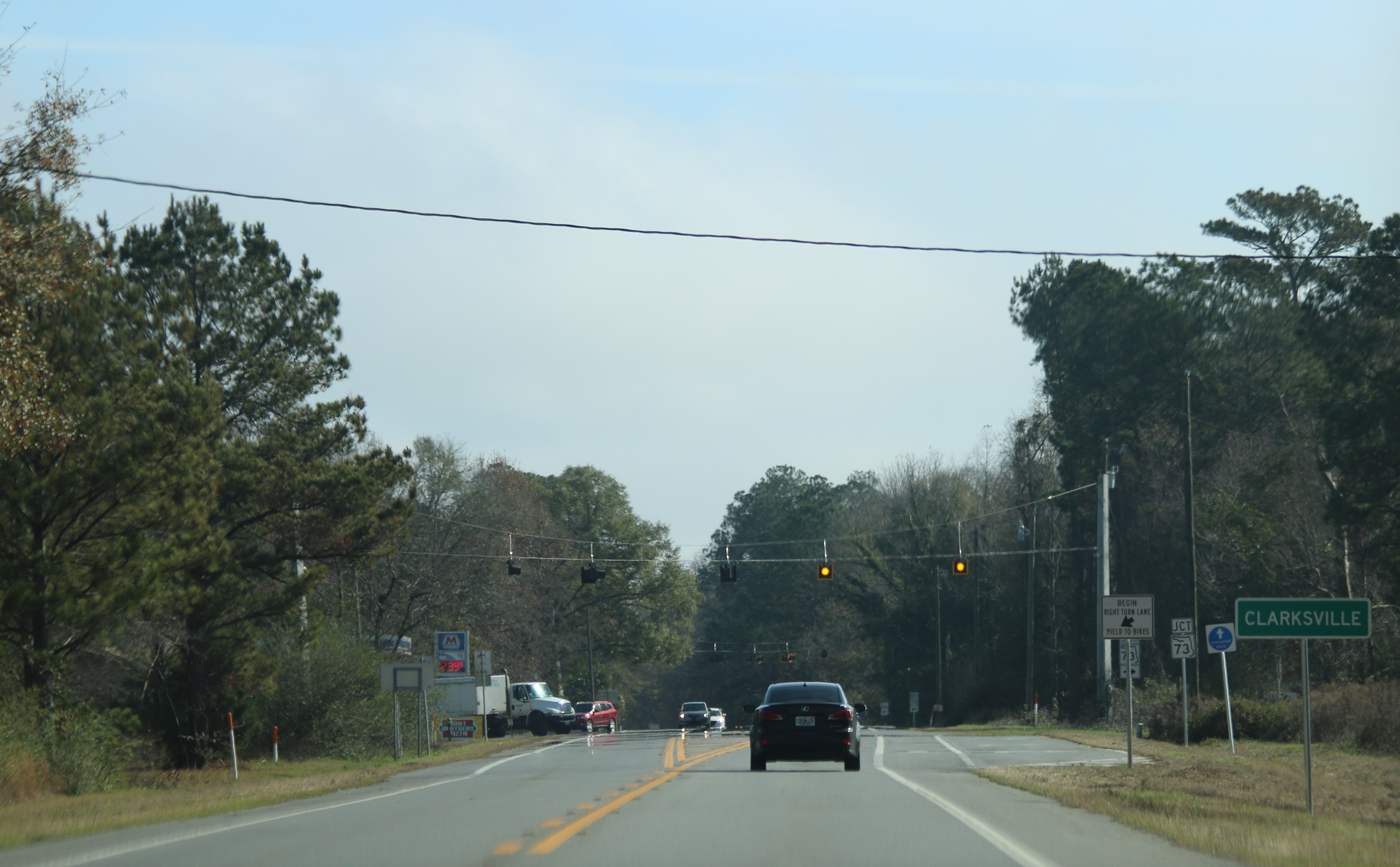 Looking east at the sign for Clarksville, Florida on State Road 20. It is an unincorporated community.